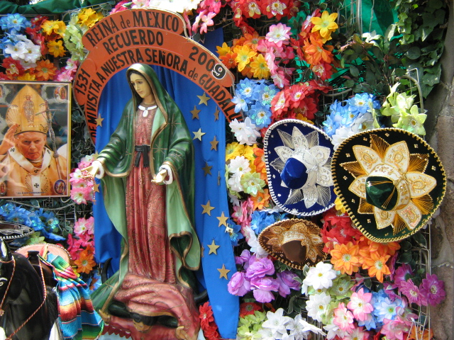 Handy-crafts at Basilica de Guadalupe, Mexico.